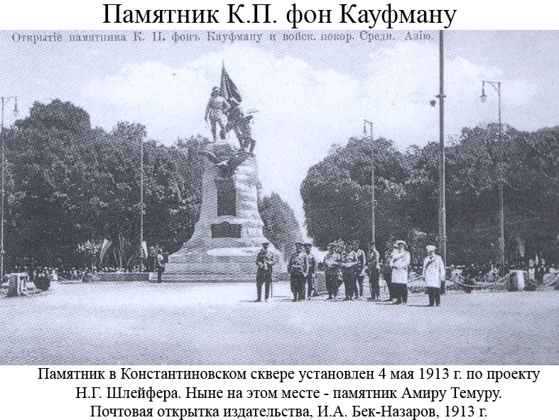 Monument K.P. von Kaufman. Monument in the park Constantine established May 4, 1913 Project N.G. Shleifer. Now at this point - the monument of Amir Temur. Postcard publishers, I.A. Bek-Nazarov, 1913